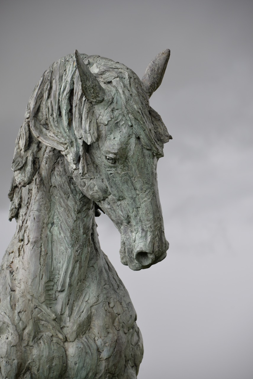 Goodmans Andalusian Stallion by Hamish Mackie. An image of a bronze sculpture of a horse